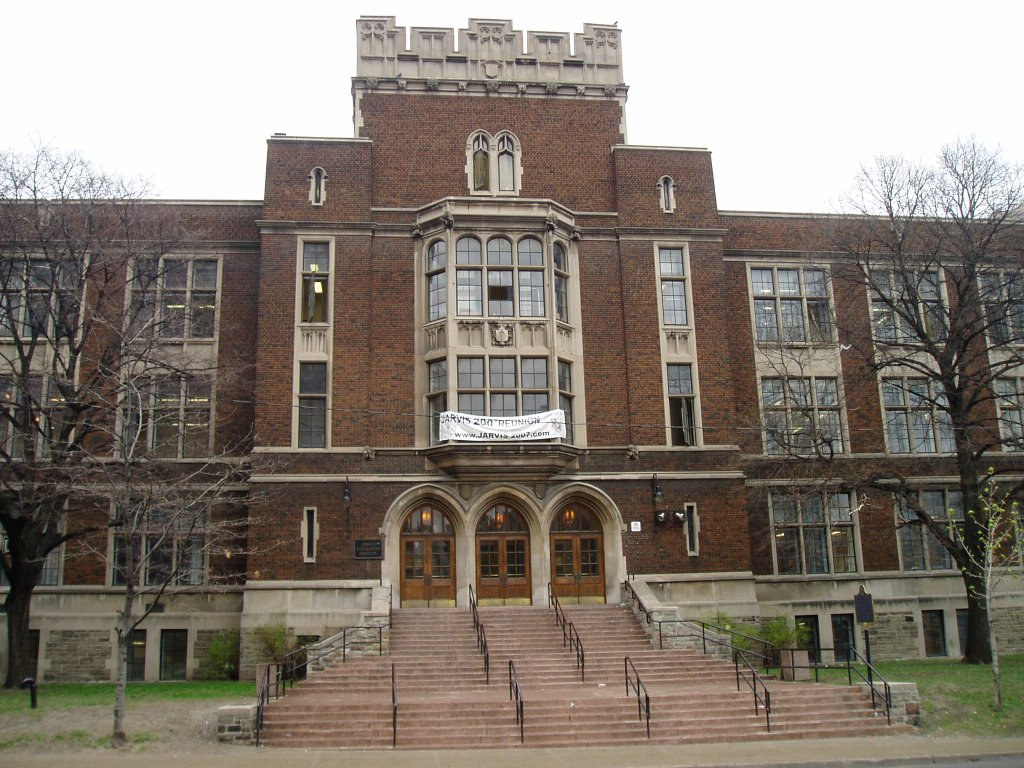 Taken by SimonP in April 2005